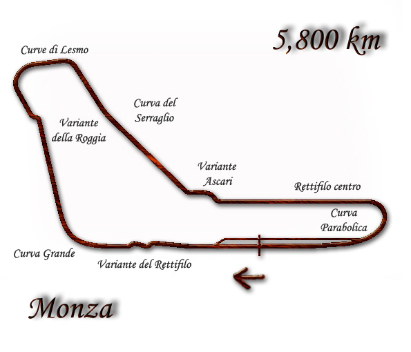 Grand Prix Italy Formula 1 /1976 - 1979//1981-1993/ Autor: Jiří Žemlička